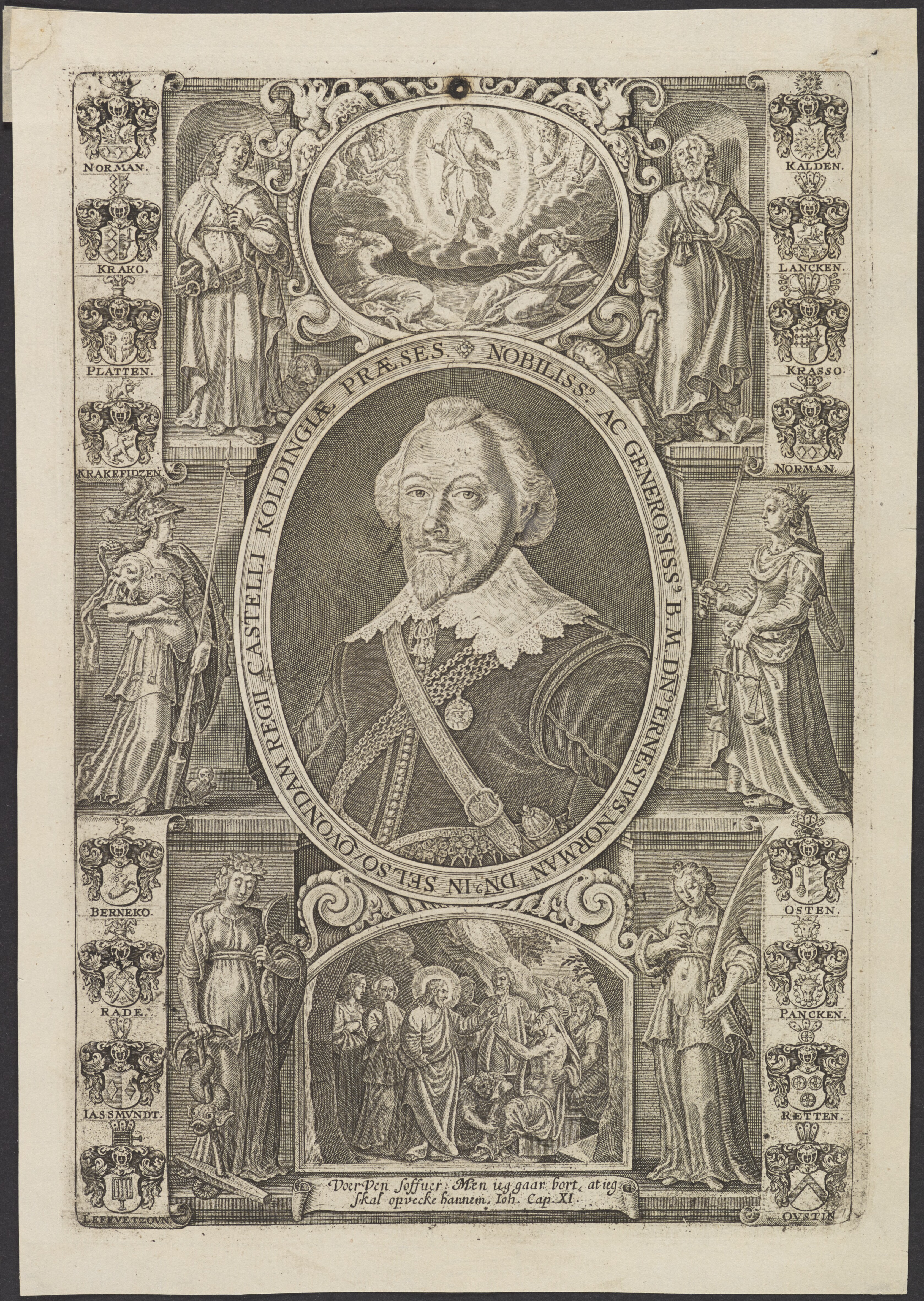 Norman, Ernst (1579-1645) til Selsø, Danmark